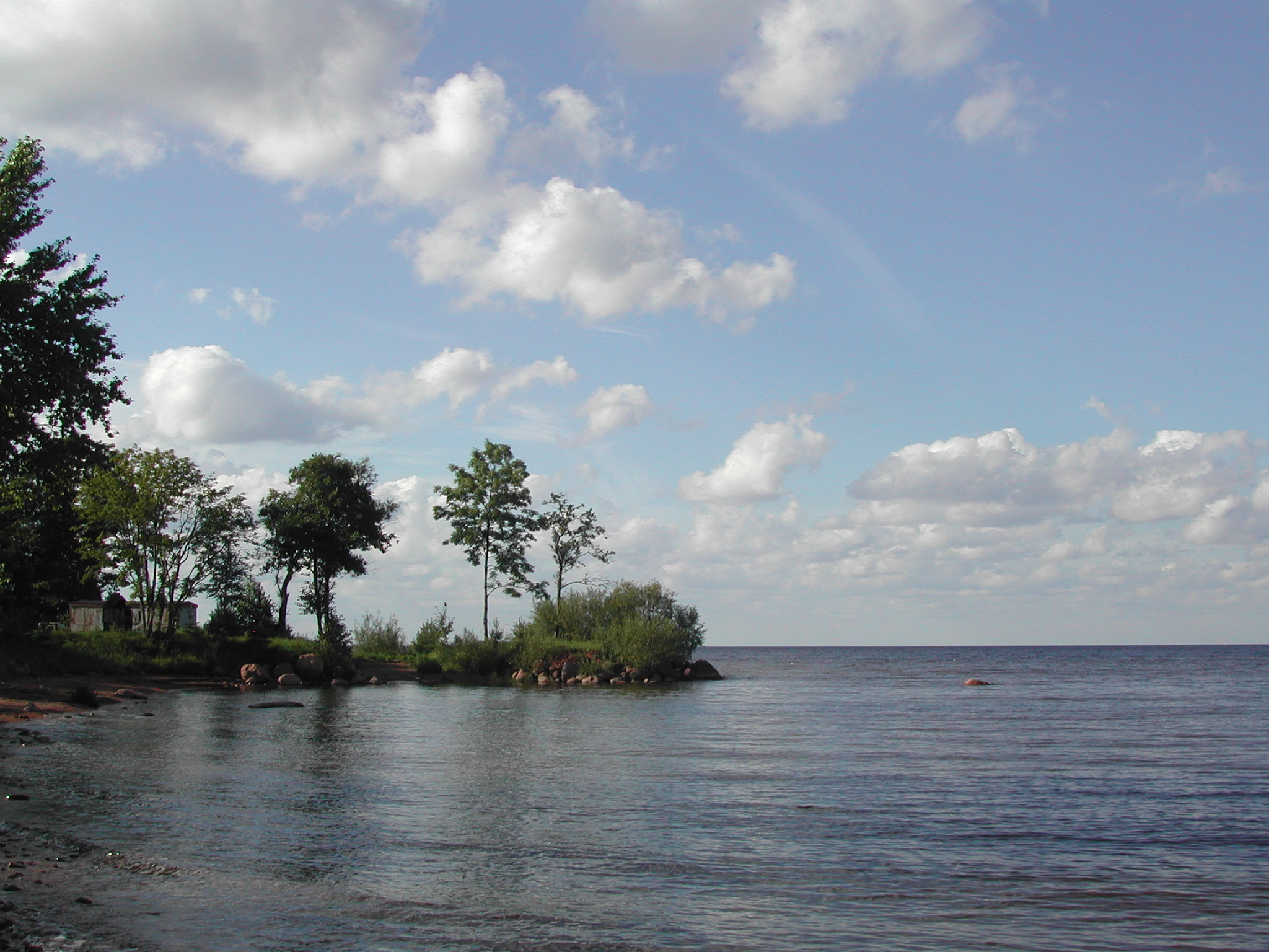 Lake Peipus near Ranna, Estonia